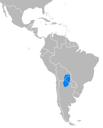 Distribution of Catagonus wagneri